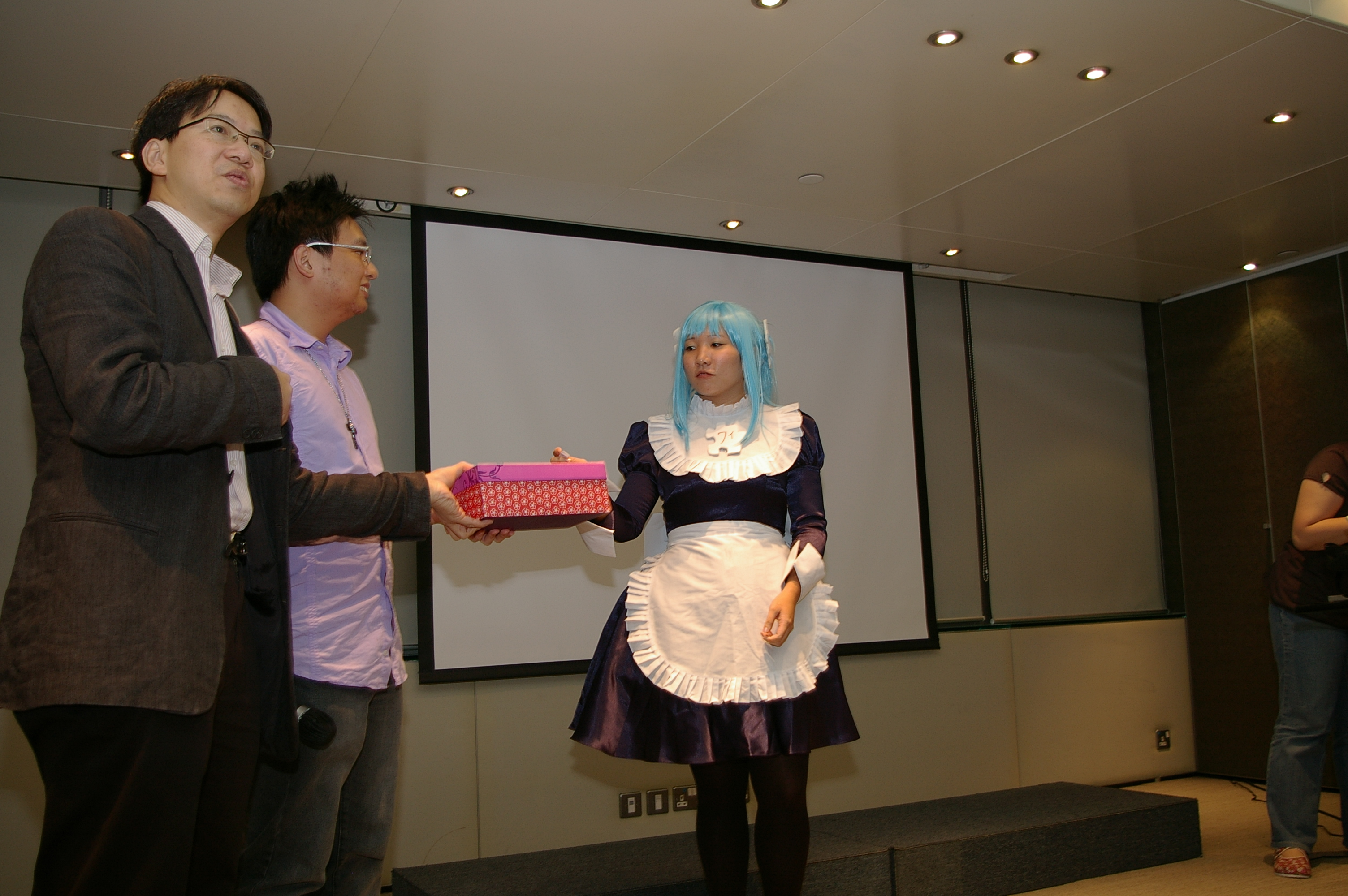 A cosplayer Kashuu TAI dressed as Wikipedia's anime mascot Wikipe-tan at the second anniversary function of Wikimedia Hong Kong Character designer: Kasuga Cosplayer: Kashuu TAI Photography: Tsugiko Hasegawa Photo holder: Wikimedia Hong Kong